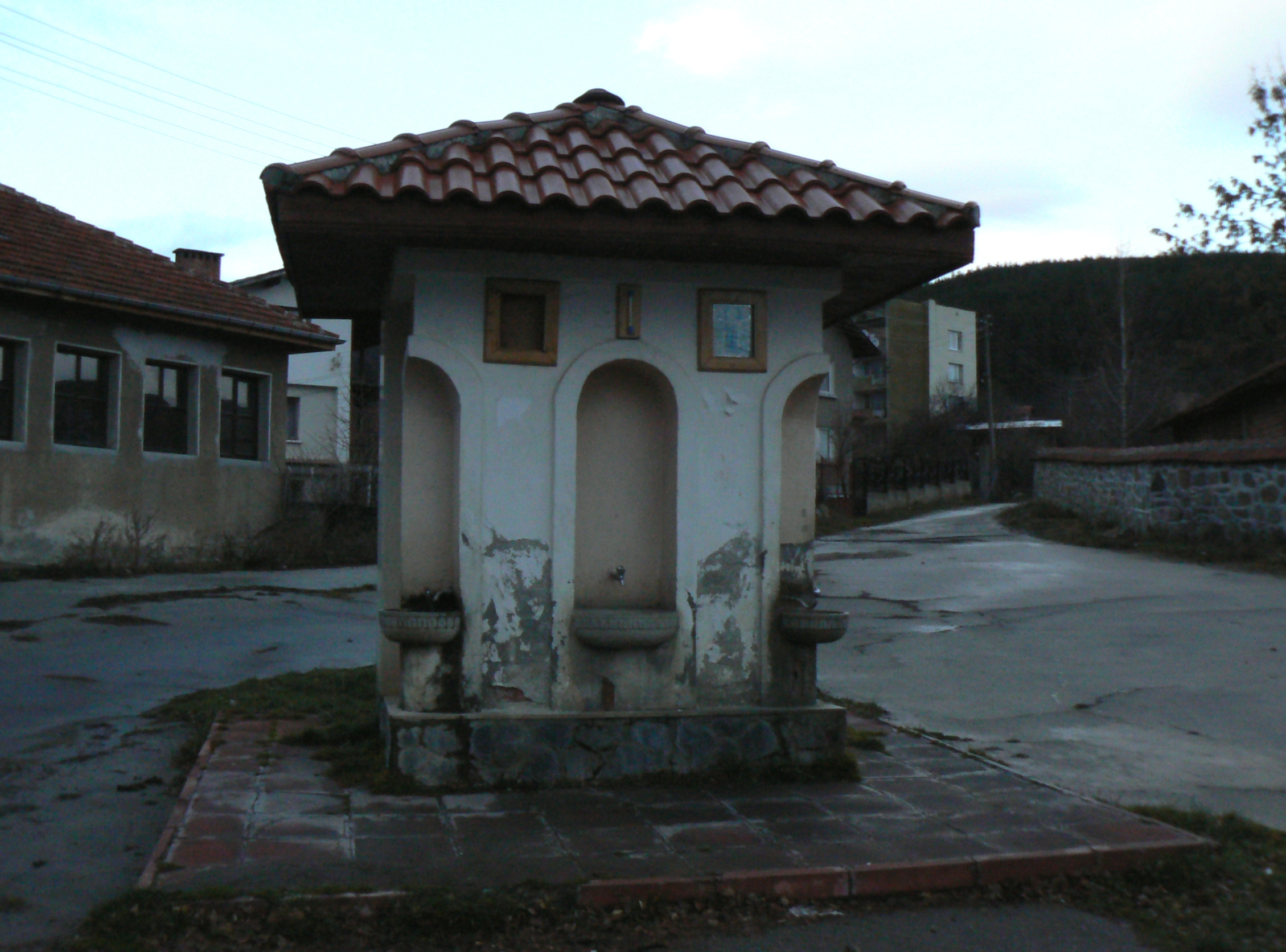 The drinking fountain in the centre of village Yarlovo, Bulgaria